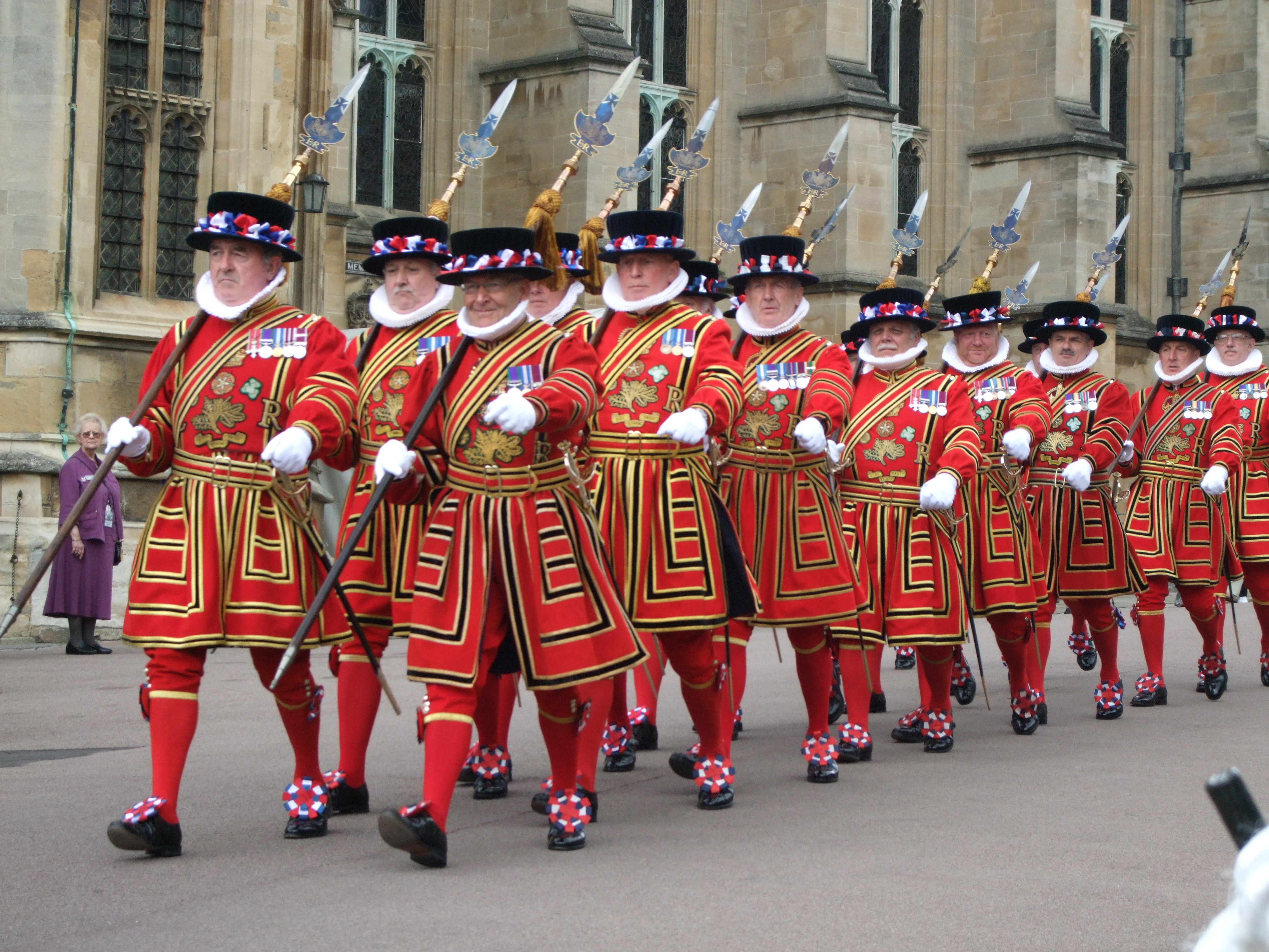 Yeomen of the Guard